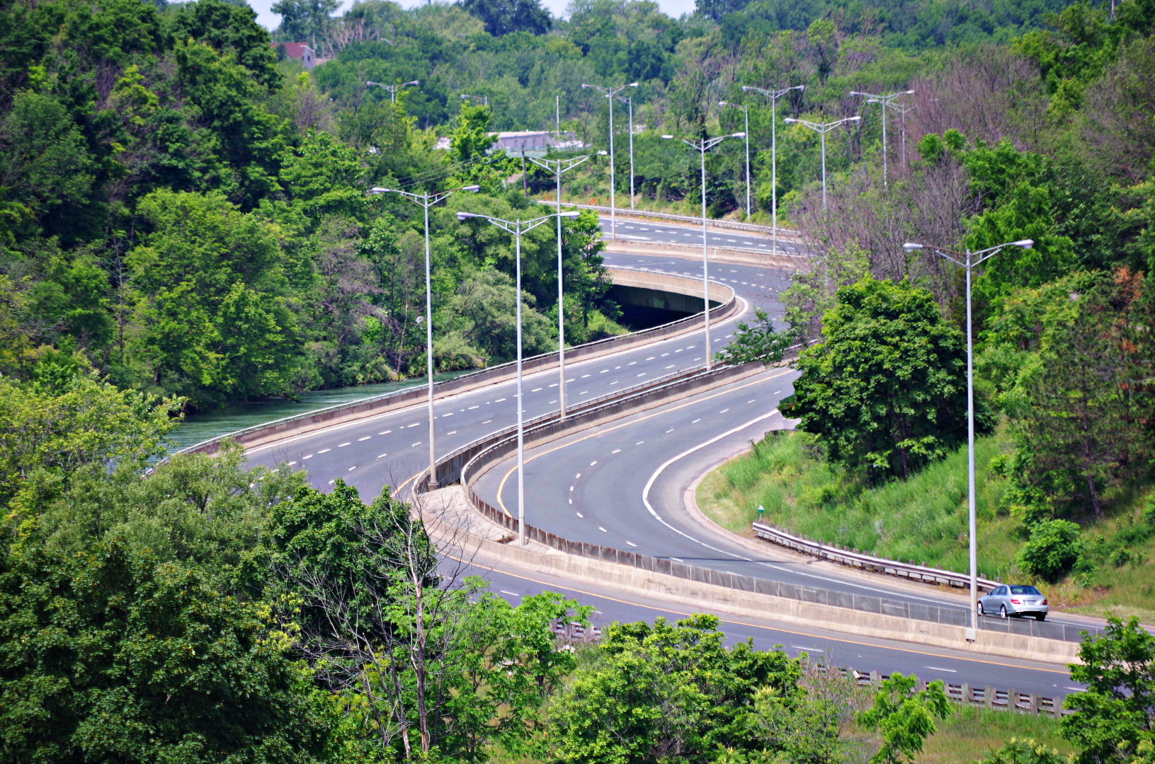 There are few shapes more appealing than a S shaped curve. In particular, on roads, the S curve strongly suggests travel, adventure and exploration. It also has a calm and pleasant appearance. A view of an S bend always builds a desire for a road trip. Highway 406 slithers across the Twelve Mile Creek in this award winning S bend bridge in St. Catharines, Ontario.